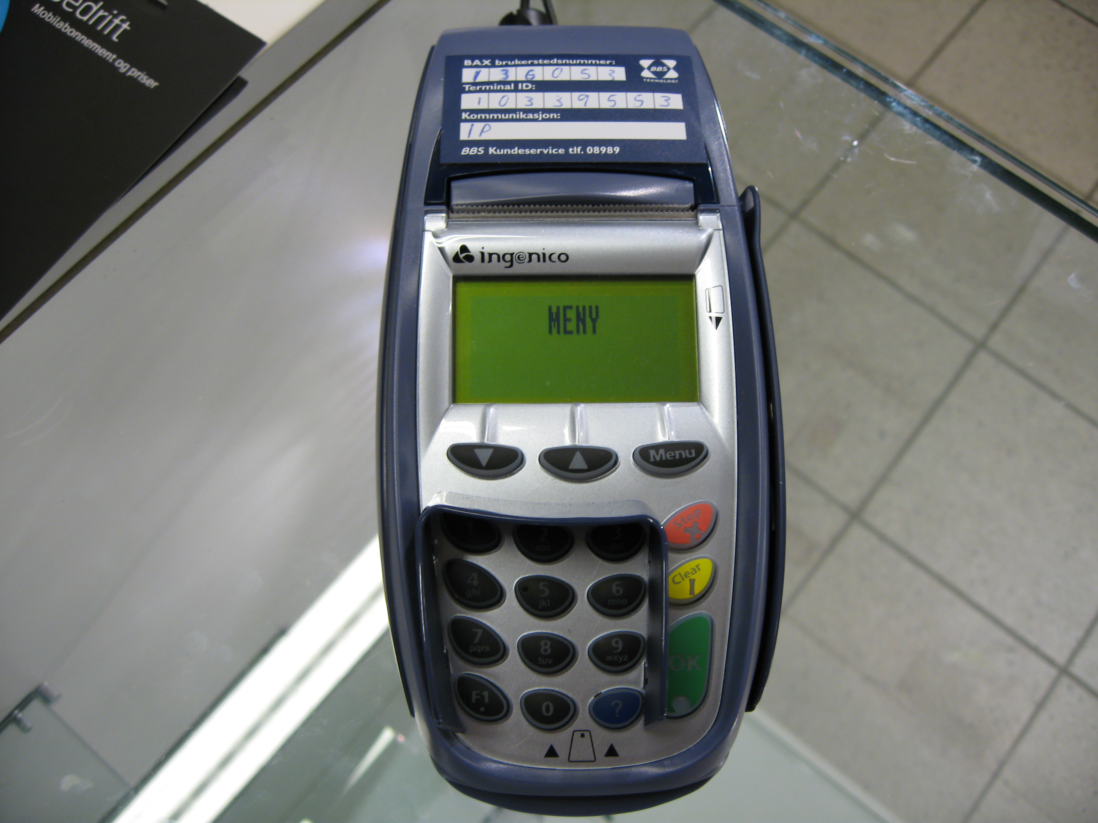 A Ingenico electronic card terminal.